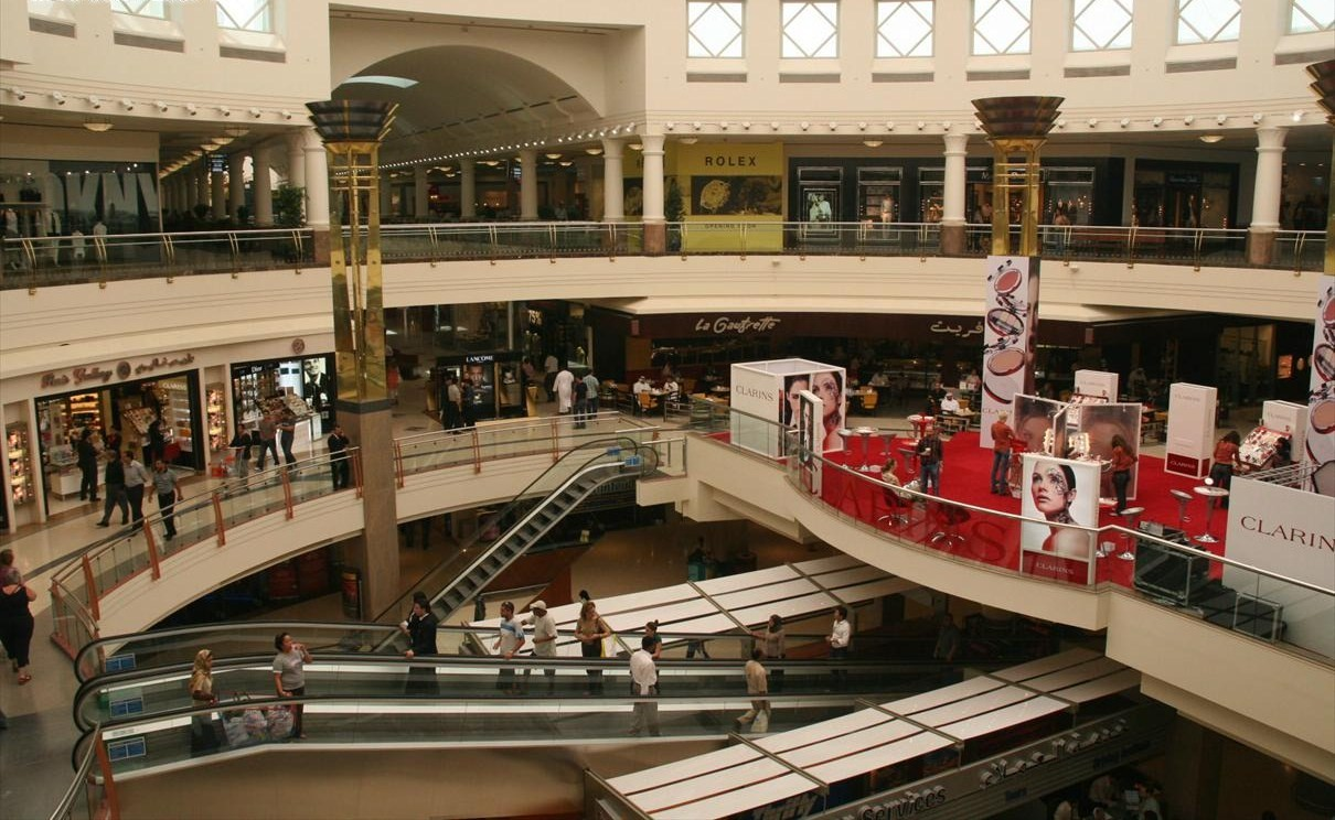 This is a photo of Deira City Centre in Deira, Dubai, United Arab Emirates on 6 June 2007.